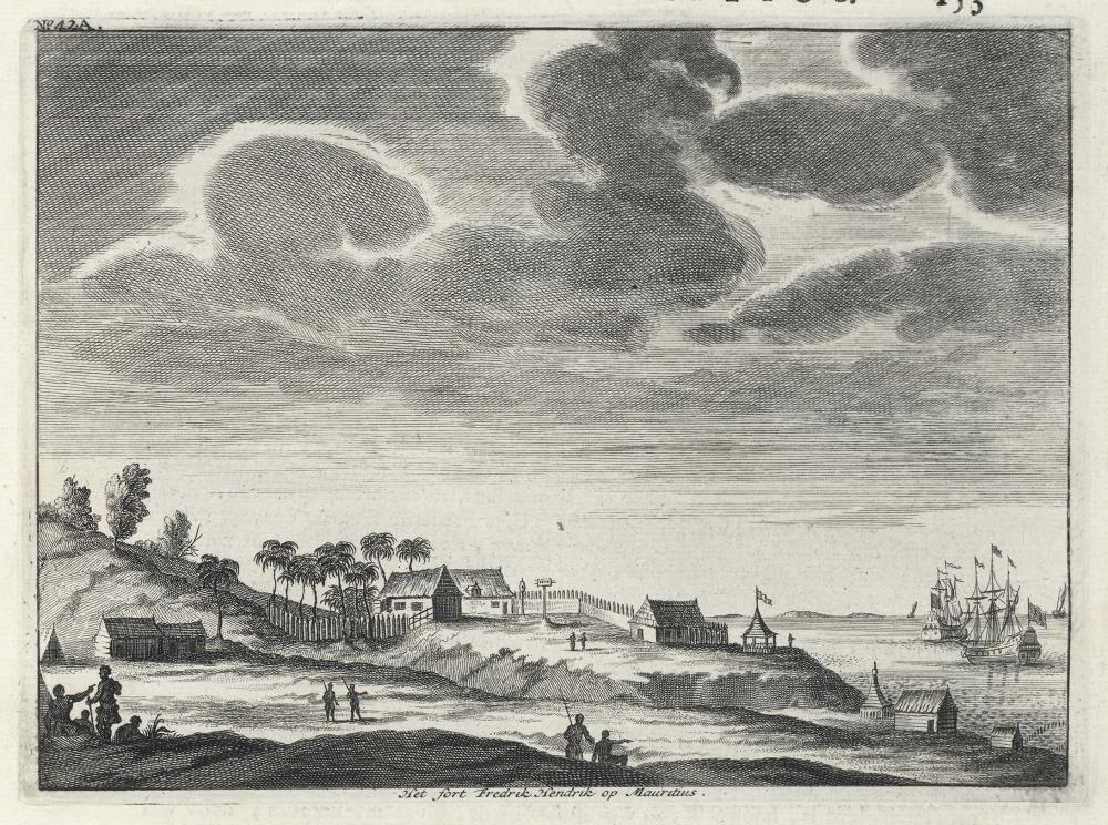 Fort Frederik Hendrik, Mauritius